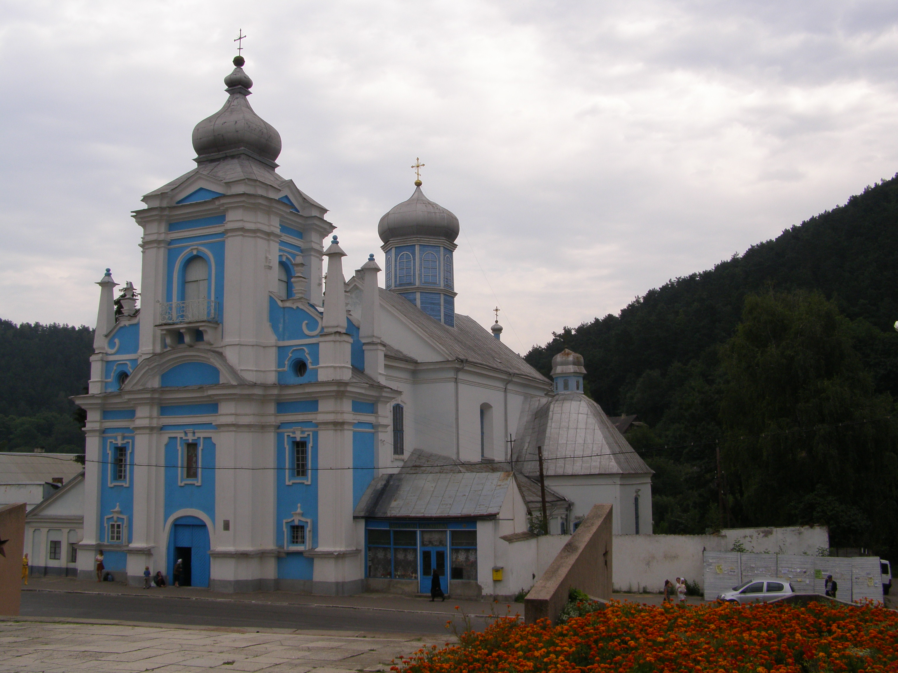 Kremenets, Russian orthodox church